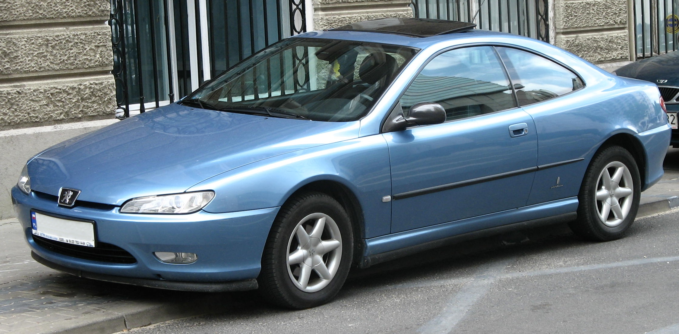 Peugeot 406 Coupé, light blue, photographed in Warsaw